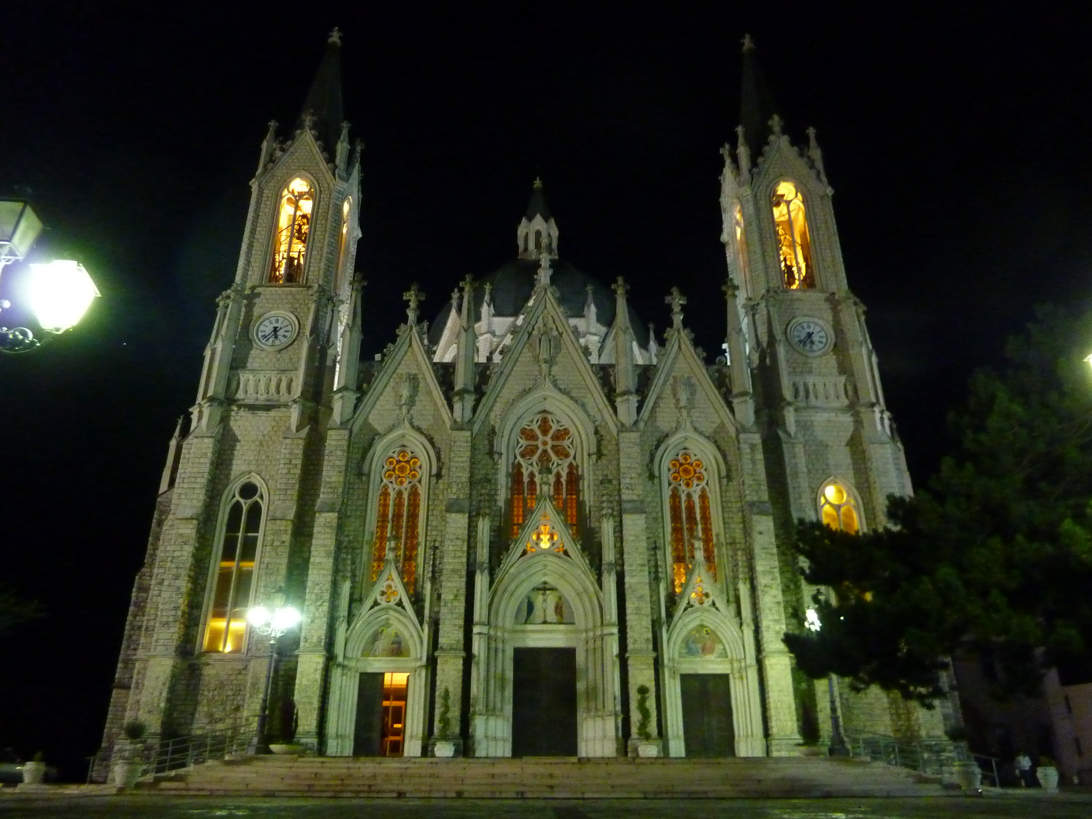 Castelpetroso: Shrine of Our Lady of Sorrows